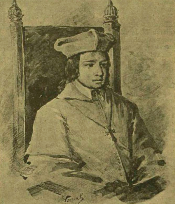 Tamás Bakócz.